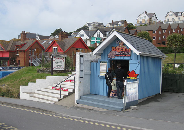 A waffle shack in Woolacombe A colourful takeaway on Barton Road.